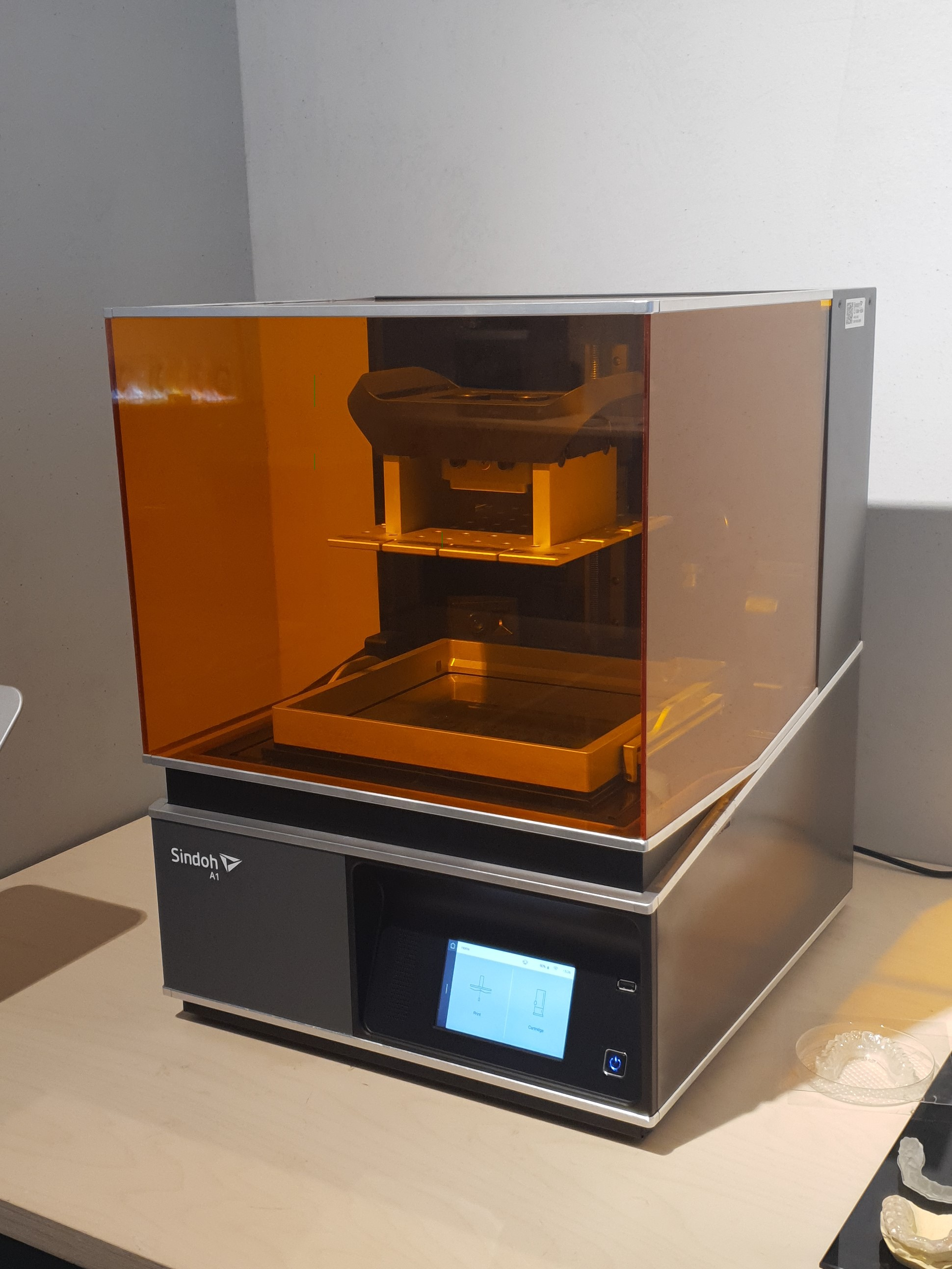 Sophisticated SLA 3D Printers